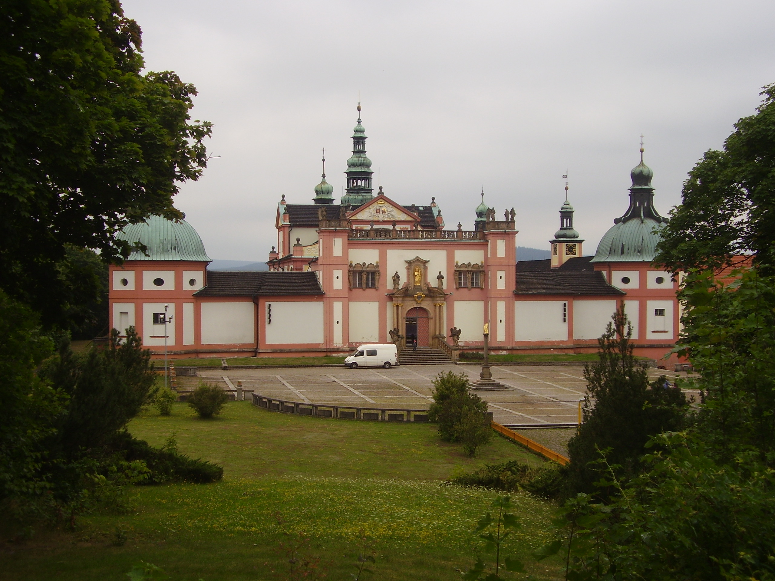 Svatá Hora near Příbram